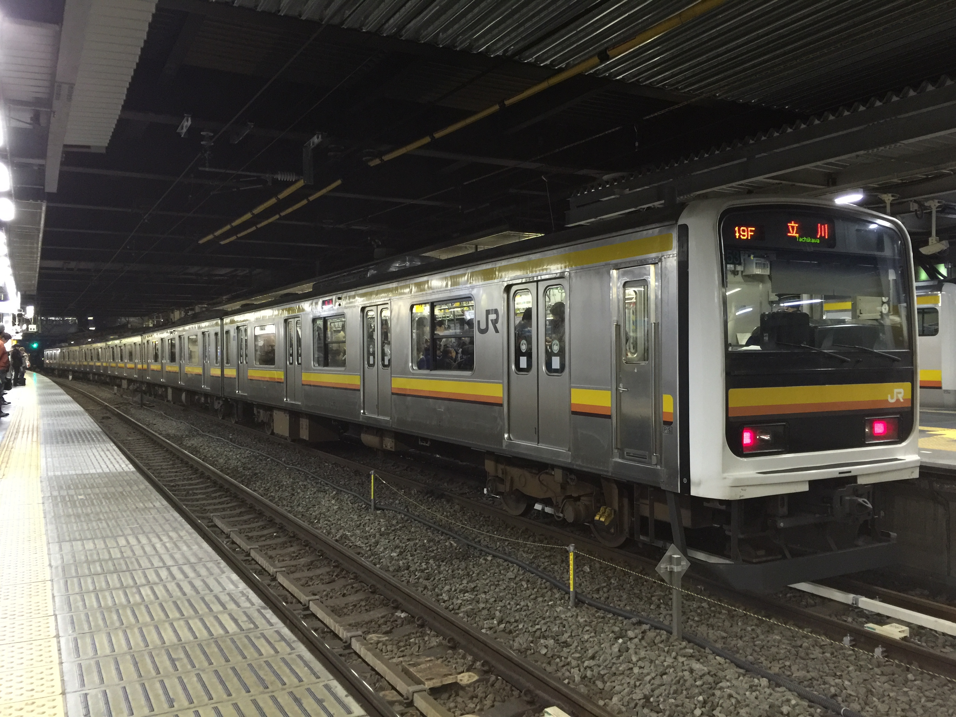 JR East 209-2200 series EMU set 53 at Kawasaki Station on a Nambu Line service